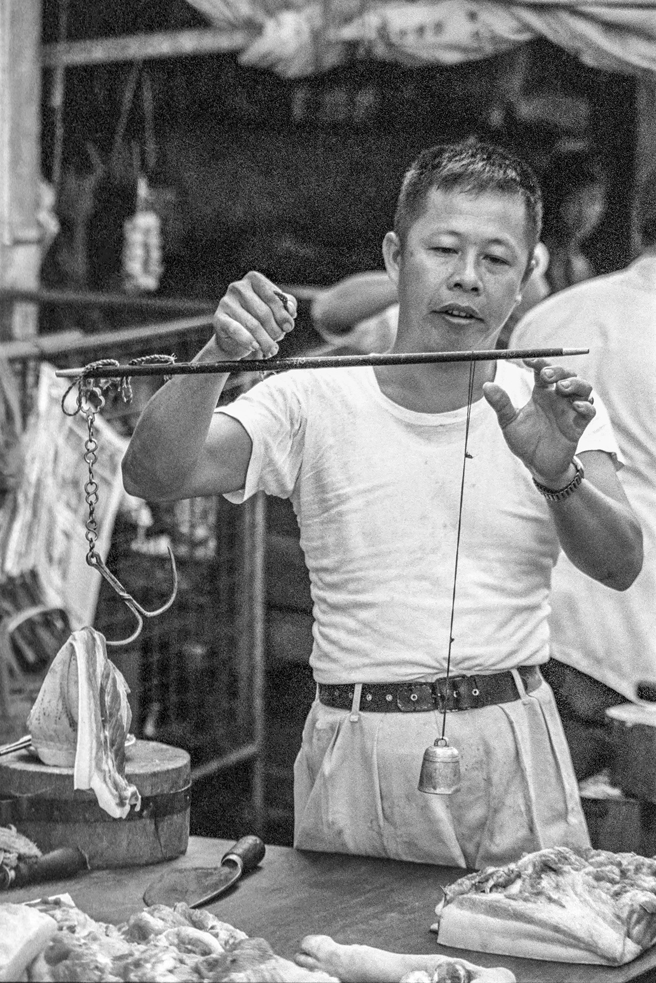 These primitive balances were common in SE Asia in the 1960s. An object being weighed is in a pan (or on a hook for meats etc) suspended from one of two or three fixed positions at the thick end. A known weight is suspended from the stick's thin end, slid along the 'calibrated' stick until the stick is horizontal, and the (rough) weight is then read from the stick markings. In Malaysia (and in other parts of SE Asia), weights were often measured in 'kati' (catty), an ancient Chinese measure equivalent to about 605 grams.